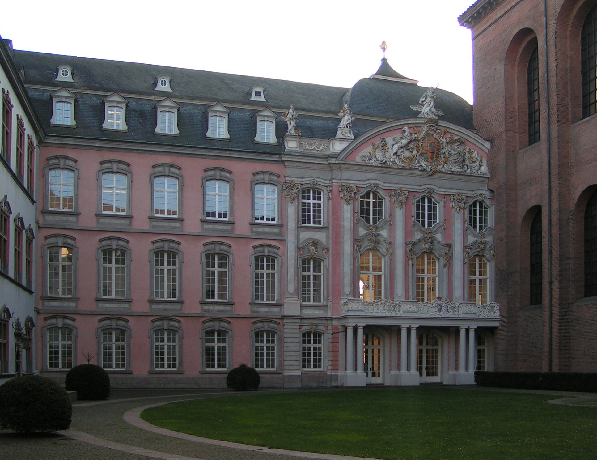 Kurfürstliches Palais, Trier, Germany